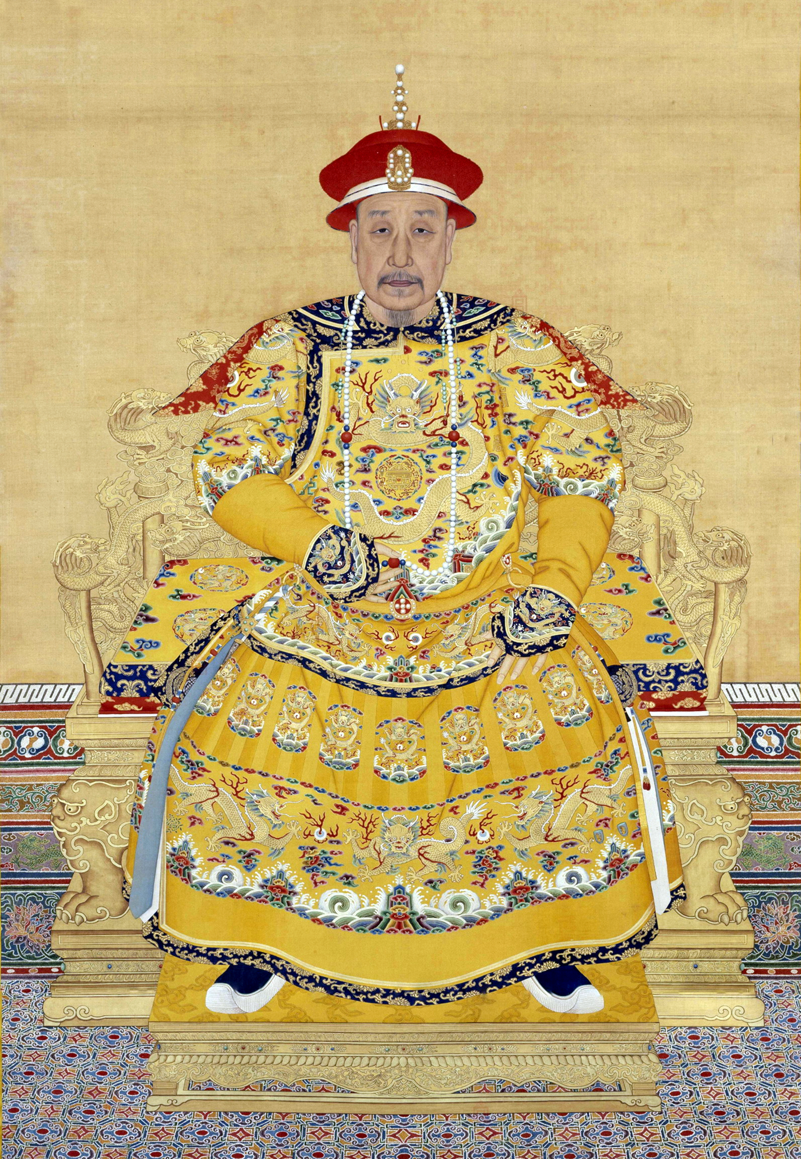 Emperor Qianlong in Old Age